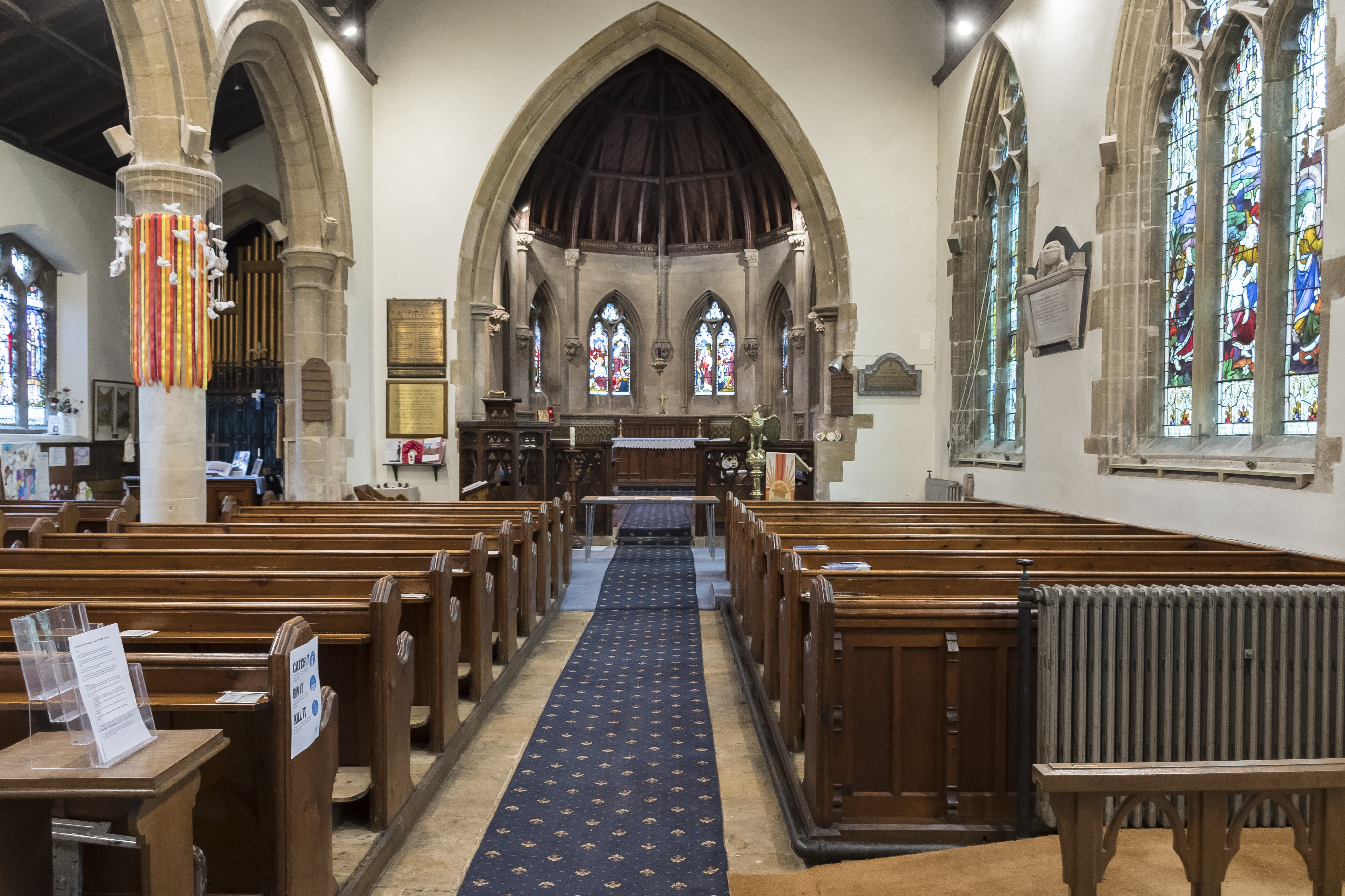 Grade II* listed The oldest part of the church dates from the early thirteenth century. The tower was added in the early fourteenth century when the south wall of the nave was rebuilt and enlarged. There is a nave with north aisle, chancel, western tower with spire, and north transept or chapel, now the organ chamber. The tower and spire are mid-fourteenth century. The spire has two-light lucarnes, and was restored in 1887. The nave has a three bay north aisle with round piers. It is possible that it was raised in the fourteenth century. It was rebuilt and enlarged in 1848. The south door is from the early fourteenth century with some fine carvings. The roof is 19th century with trussed rafters and curved braces. The chancel arch dates from around 1862, built in a thirteenth century style. The chancel was built in the mid nineteenth century, and has a polygonal apse with several two light stained glass windows. It has a richly tiled floor and dado. The builder was Charles Kirk the younger, and the external wall carries the dedication to Charles and Elizabeth Kirk in a frieze beneath the eaves. The polygonal font is from the fourteenth century. There are also two small piscinas in the nave from the same period. There are several stained-glass windows dating from the nineteenth and early twentieth century. There is a small two manual organ by Binns from 1929.